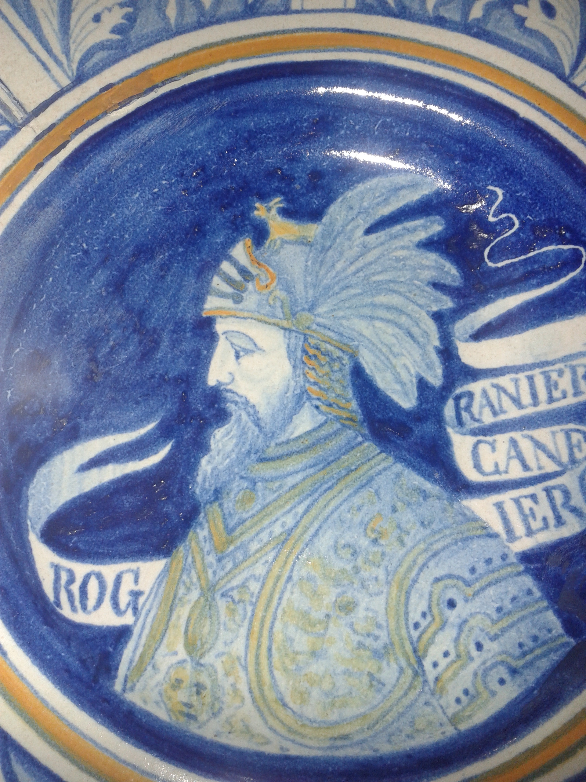 Angelo Micheletti, piatto con il condottiero Ruggero Cane Ranieri, 1898, Deruta, Museo della Fabbrica Grazia